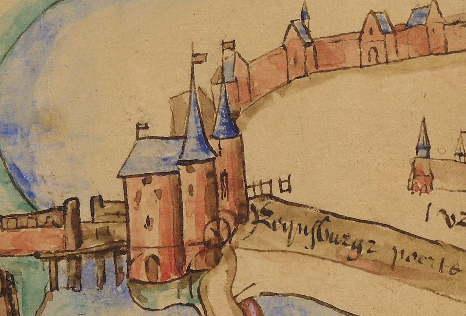 This file has been extracted from another file: Leiden map Sluyter.jpg Detail showing the Lopsenpoort (city gate)